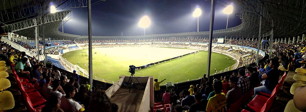 Panoramic view of a ongoing match in Fatorda Stadium in Goa.